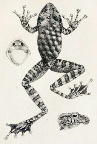 Stefania evansi (Boulenger, 1904). Original illustration in Boulenger, G. A. 1904. Description of a new tree-frog of the genus Hyla, from British Guiana, carrying eggs on the back. Proceedings of the Zoological Society of London 1904(Vol. II): 106